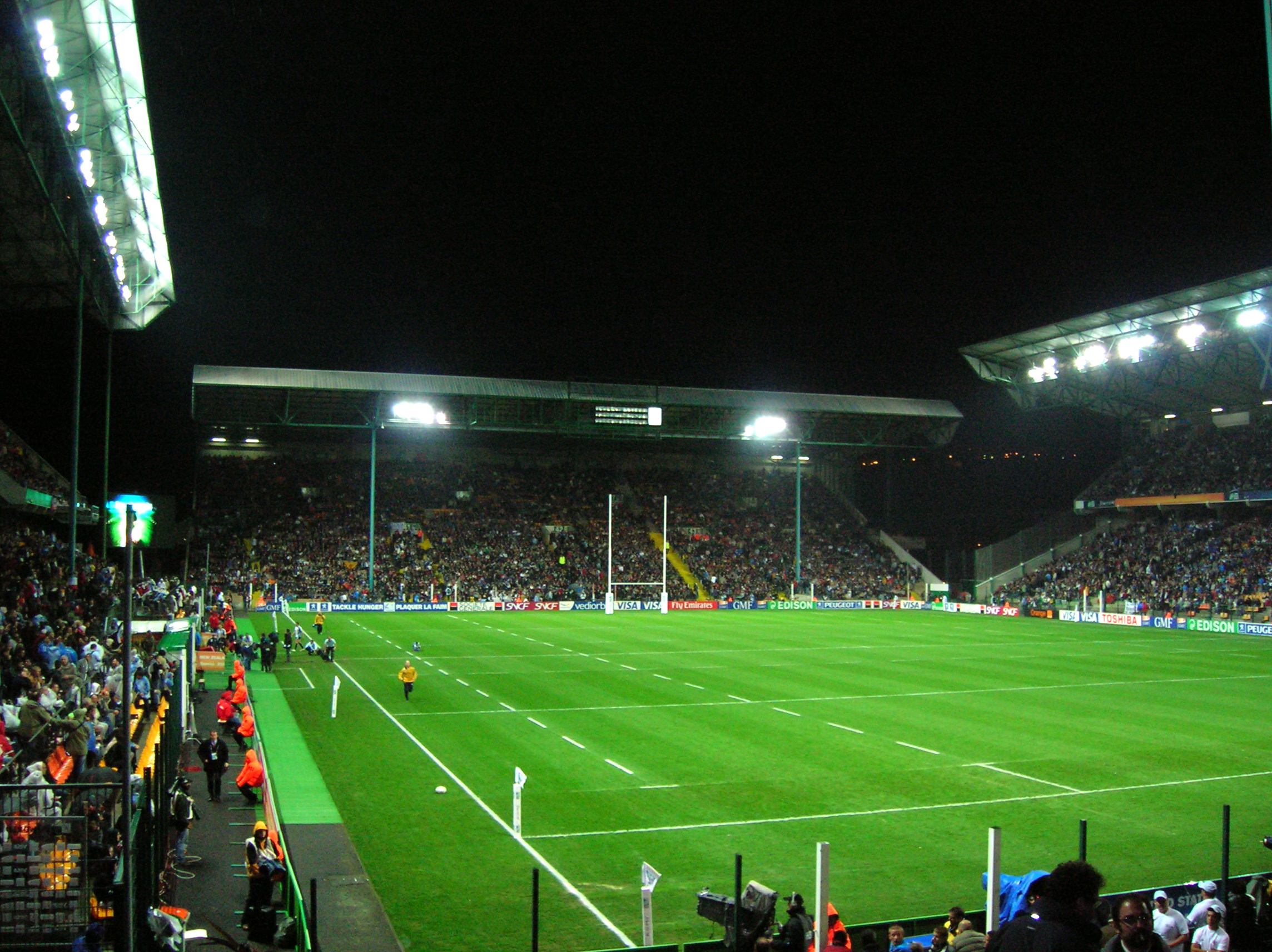 St-Etienne's stade Geoffroy Guichard during the 2007 Rugby World Cup, before pool match Scotland-Italy.